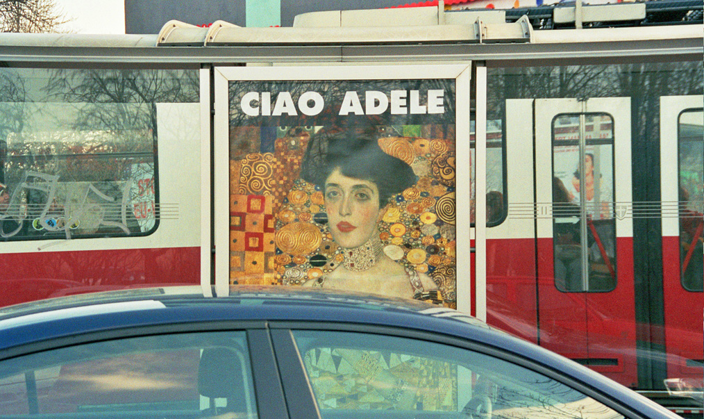 Ciao Adele - advertising poster by a poster agency in Vienna in February 2006, commenting on the fact that Gustav Klimt's painting Adele Bloch-Bauer I was turned over to Maria Altmann, inheritor of its former owner, in Los Angeles